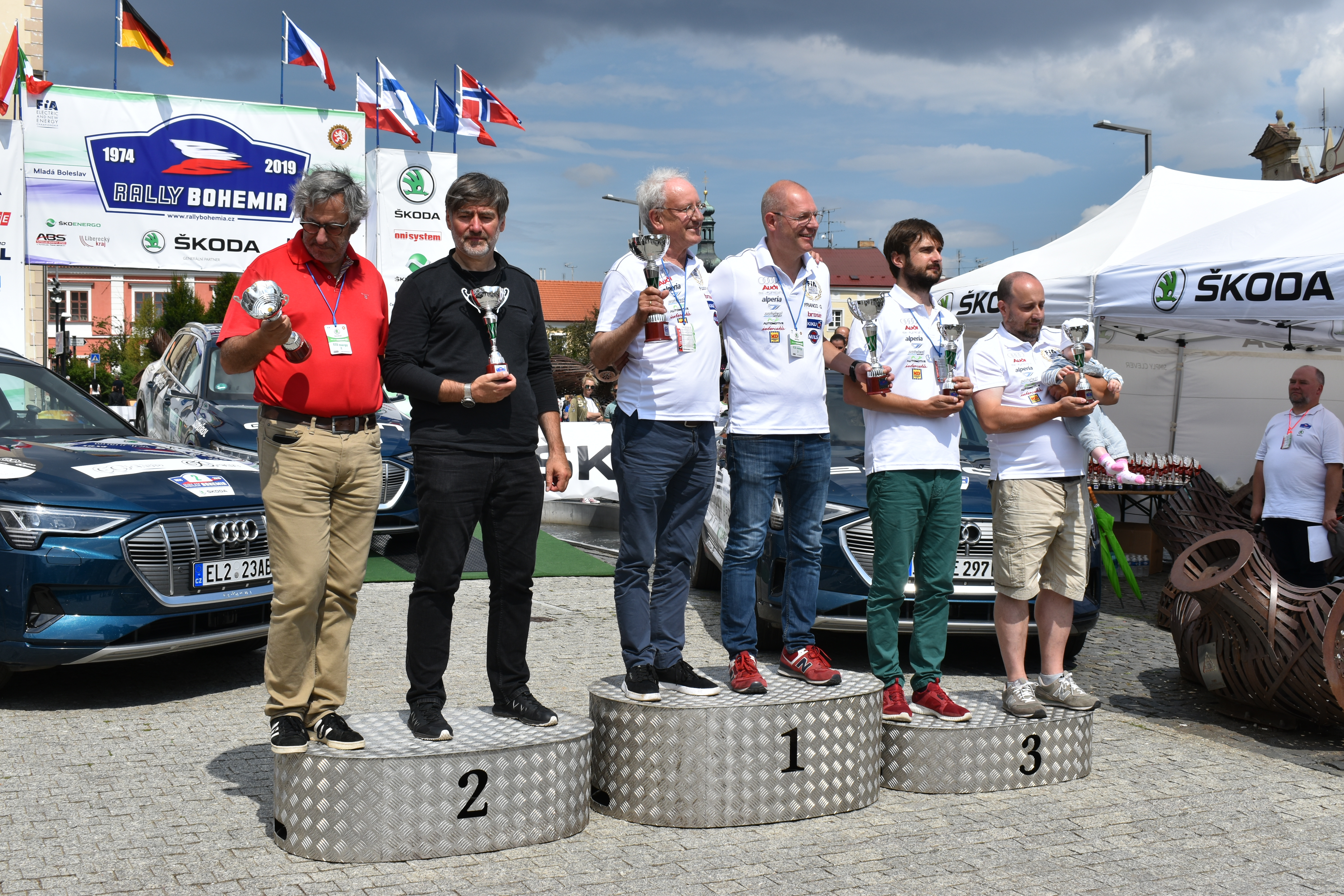 The podium of Eco Energy Rally Bohemia 2019